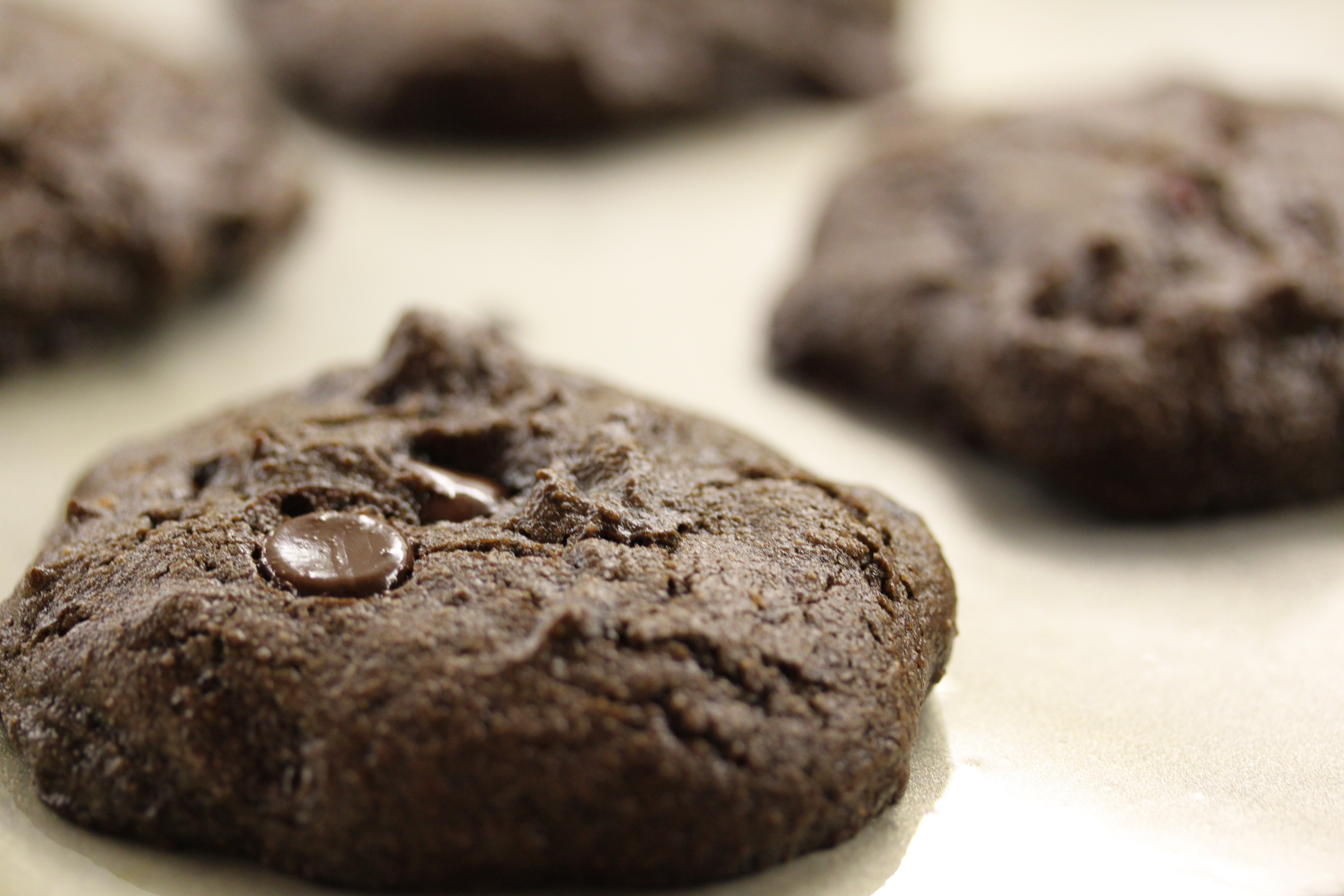 Chocolate chip cookies with carob powder instead of cocoa powder (recipe)